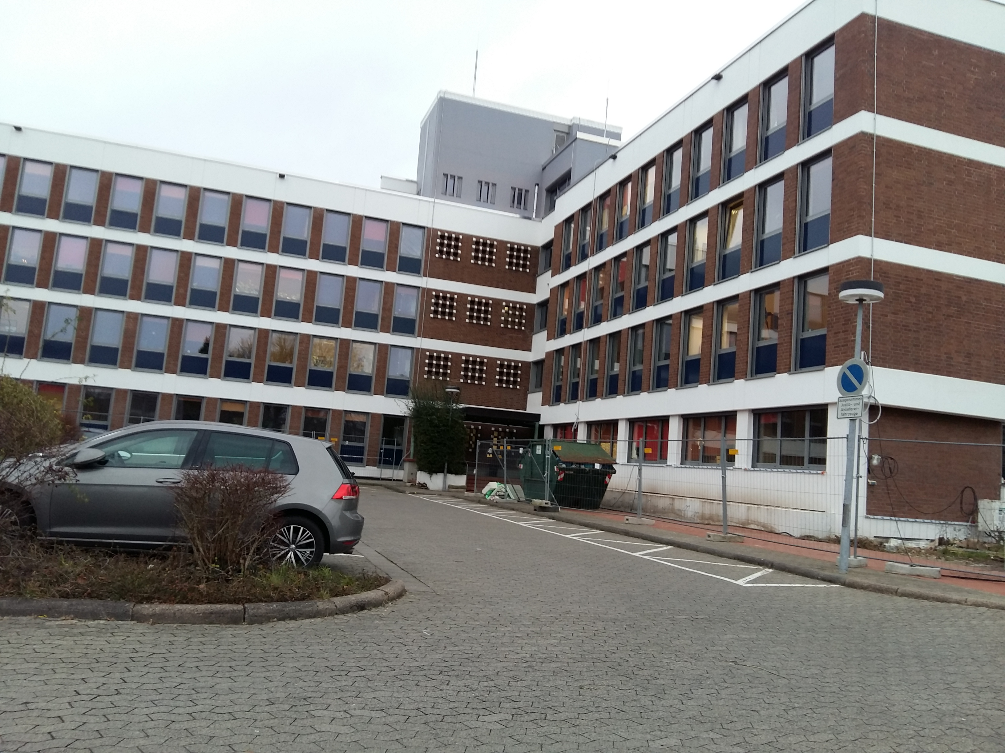 Building of the District Court (Amtsgericht) Dieburg; Bei der Erlesmühle 1, 64807 Dieburg, Hesse, Germany